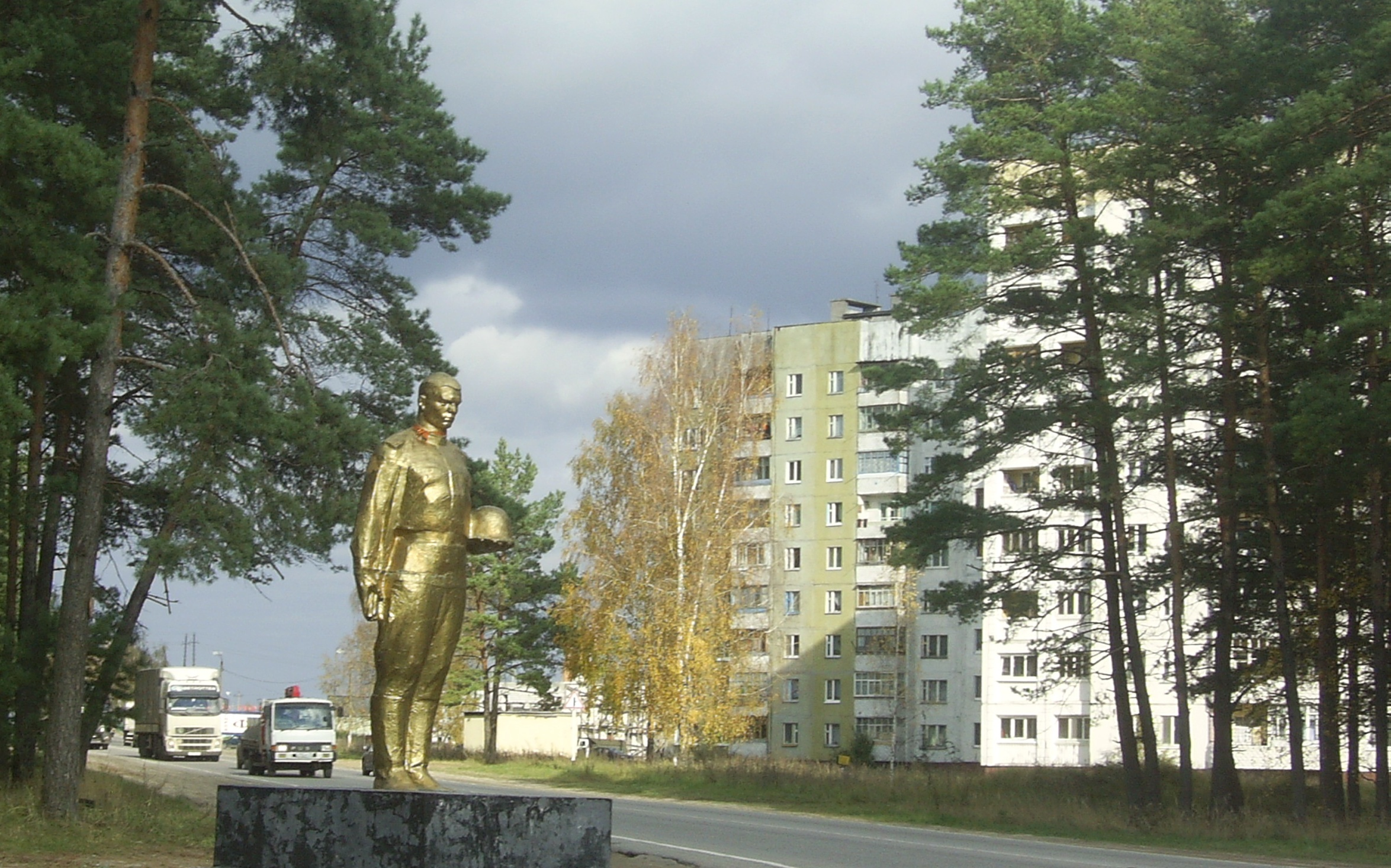 Shibenets, separated part of Fokino city (Bryansk Oblast, Russia)